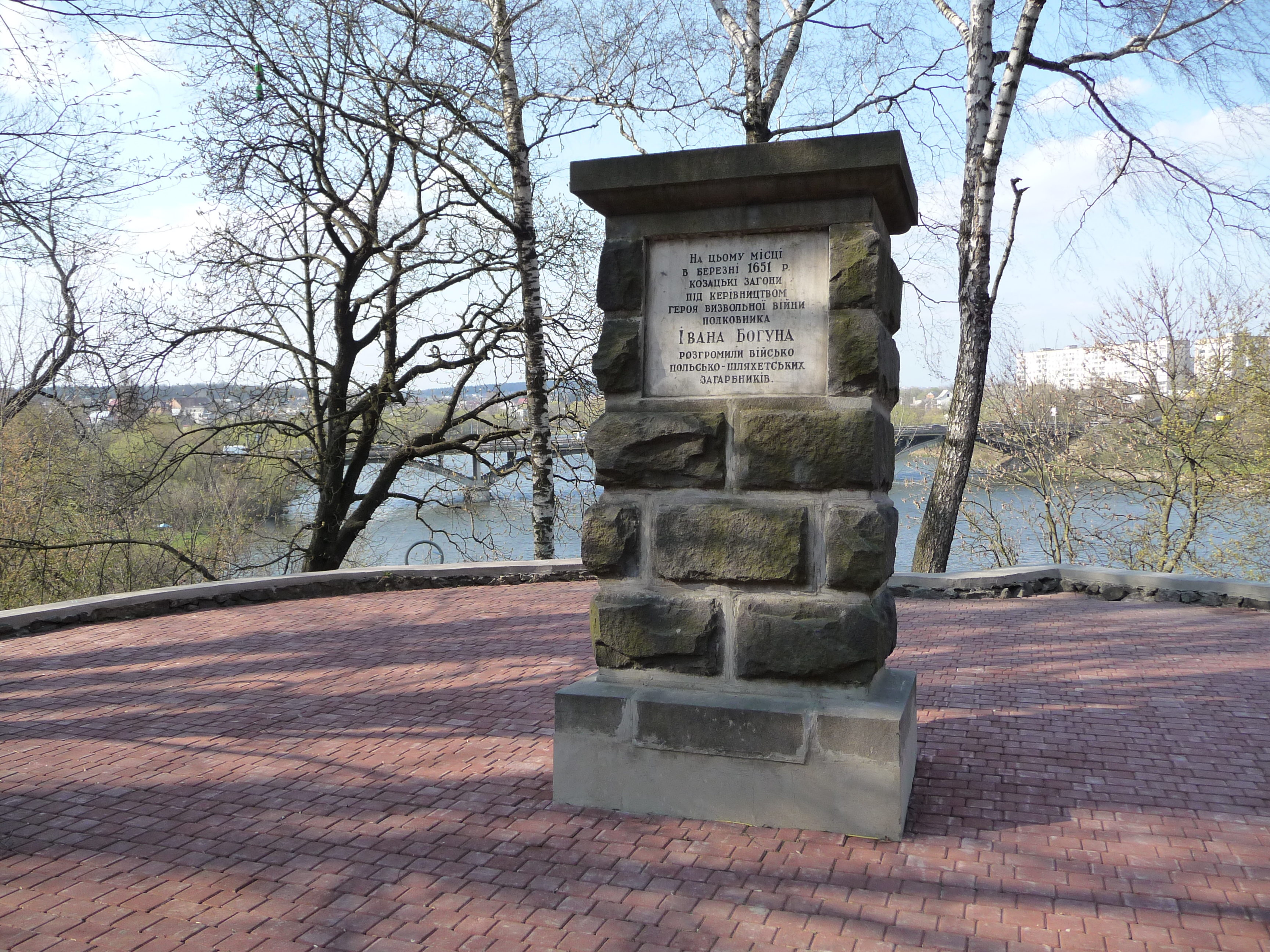 Memorial on a place of battle in March 1651 in Vinnytsia (Vinnitsa). Ivan Bohun against the Polish army. This place in city is called is called "Kumbary".